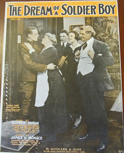 Cover art